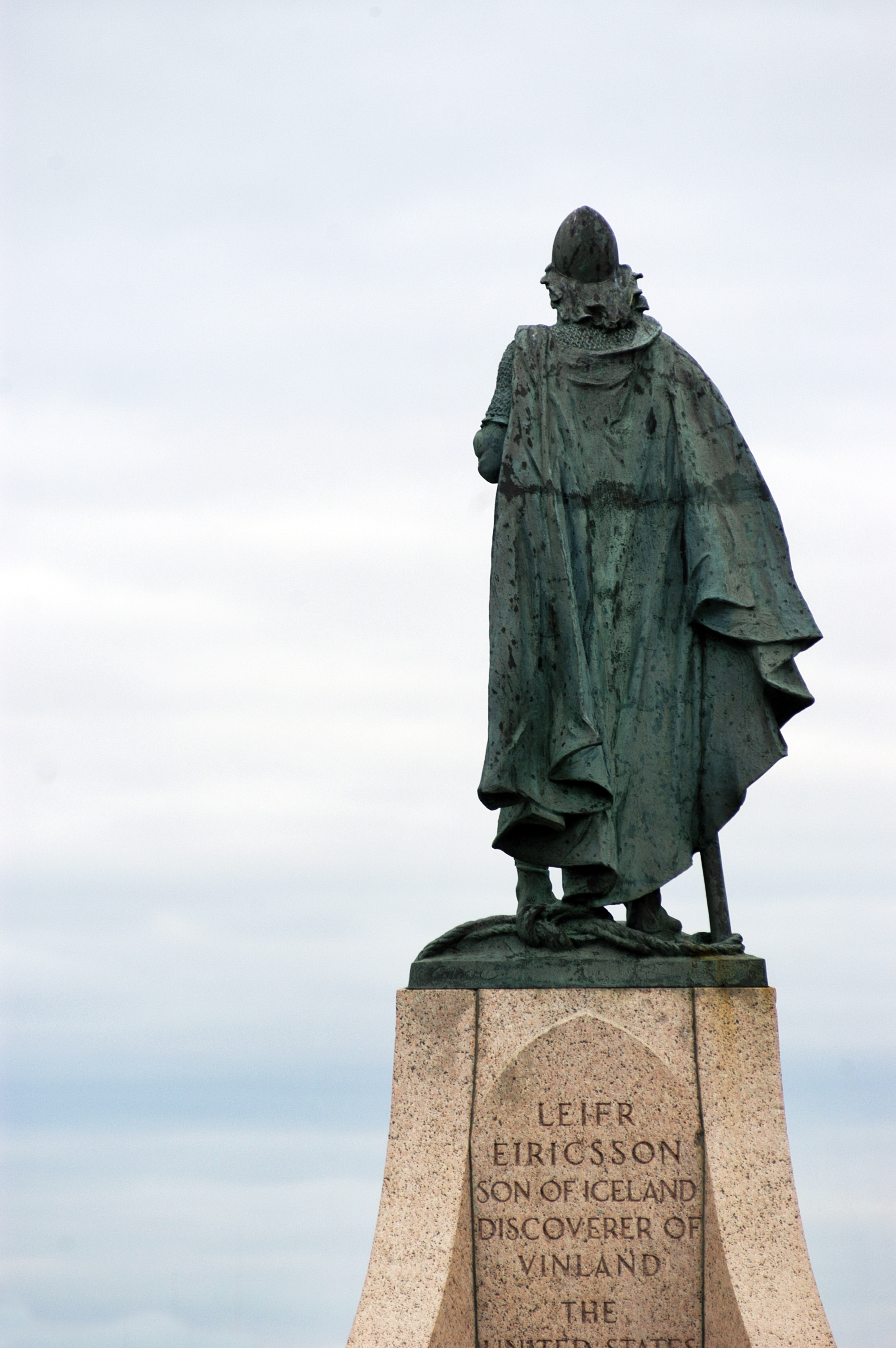 Leif Ericsson Keywords: History, Art, Culture, Iceland